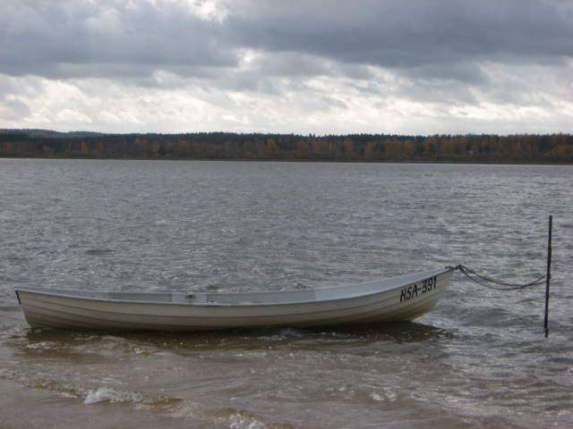 Lake of Tamula in 2008.